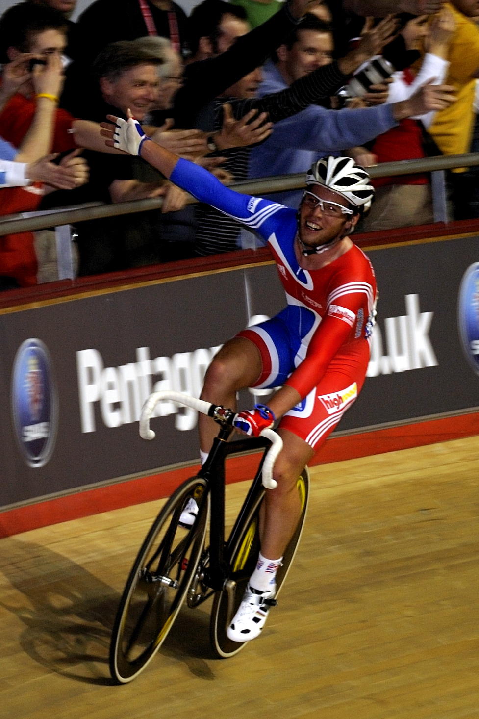 Mark Cavendish becomes World Madison Champion 2008 with Bradley Wiggins at Manchester Velodrome